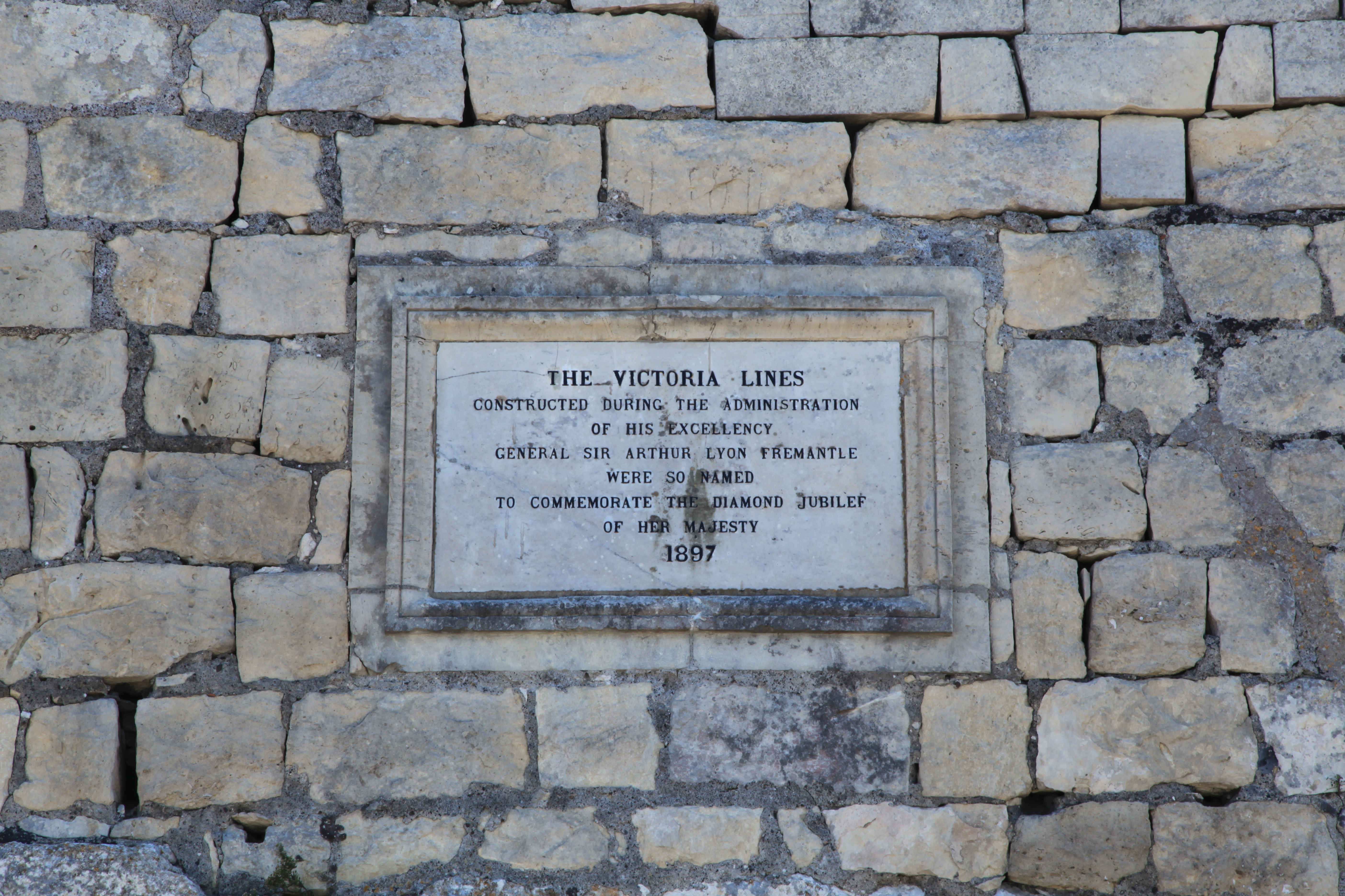 Victoria Lines at Triq Burmarrad in Mosta, Malta